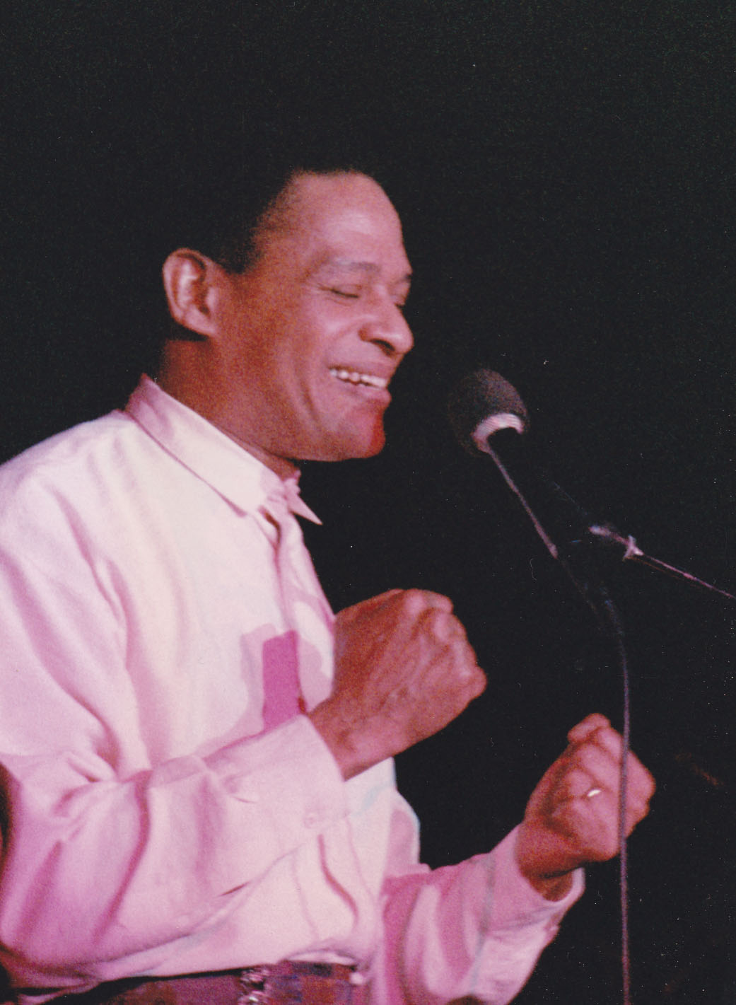 Al Jarreau in Montreux (possibly) around 1986